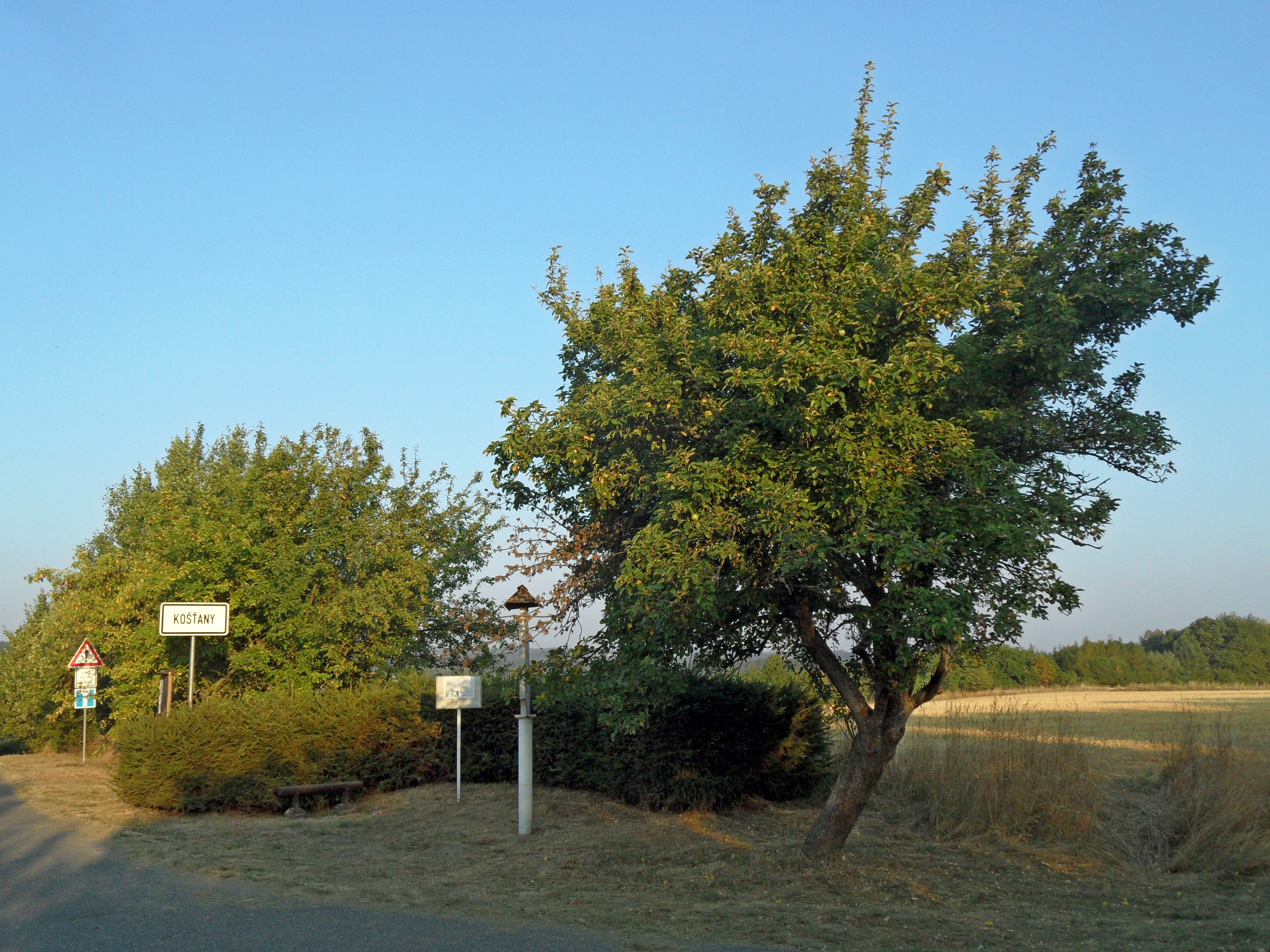 Košťany_(Vilémov) A. Arrival to Village. Havlíčkův Brod District, the Czech Republic.